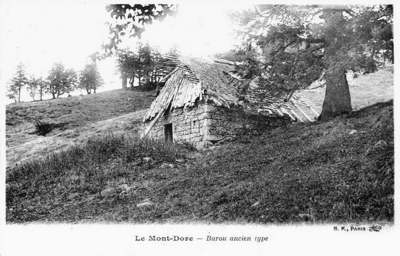 Cheese-making barn (buron) of mortared stonework under a four-sided thatched roof in the Mont-Dore, Puy-de-Dôme. It is a specimen of the "ancient type" of burons, as opposed to those of mortared stonework under a roof of slates or stone tiles. The edifice is on its way to ruin.